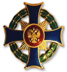 Russian Federation. Order of "Parental Glory". Instituted on 13 May 2008. Awarded to parents (also adoptive parents) who are married, in a civil union, or in the case of single-parent families, to one of the parents (adoptive parents) who are/is raising, or have raised four or more children as citizens of the Russian Federation. For leading a healthy family life, being socially responsible, providing an adequate level of health care, education, physical, spiritual and moral development of the children, full and harmonious development of their personality, are setting an example to strengthen the institution of the family and child rearing.